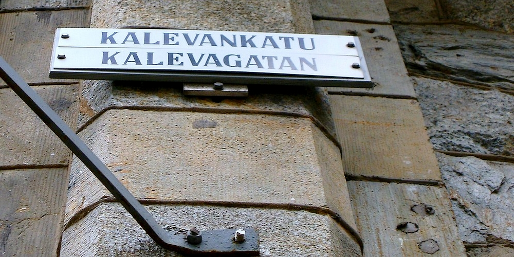 The street sign of Kalevankatu in Helsinki, Finland